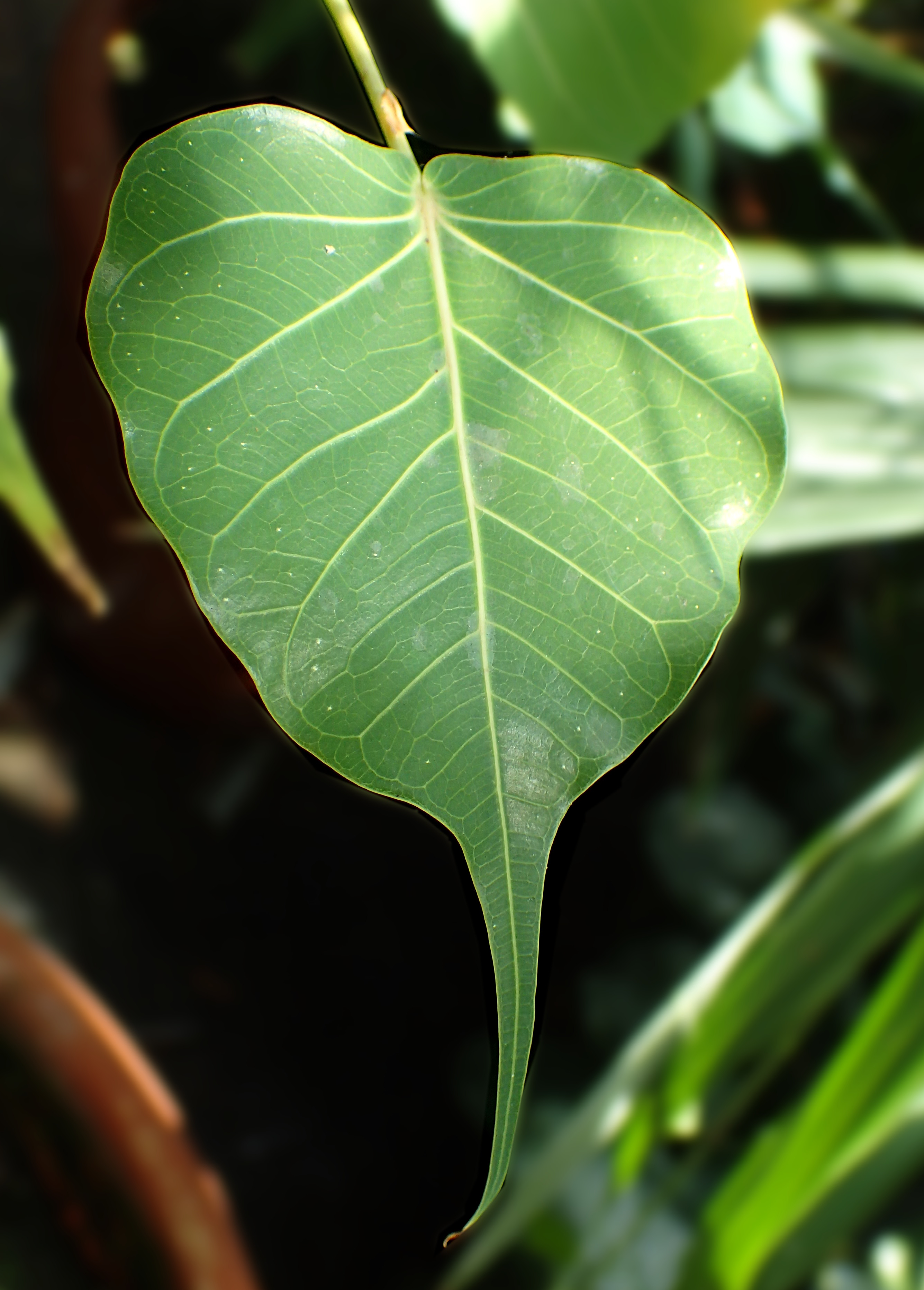 Ficus religiosa in Boltz Conservatory, Madison, Wi